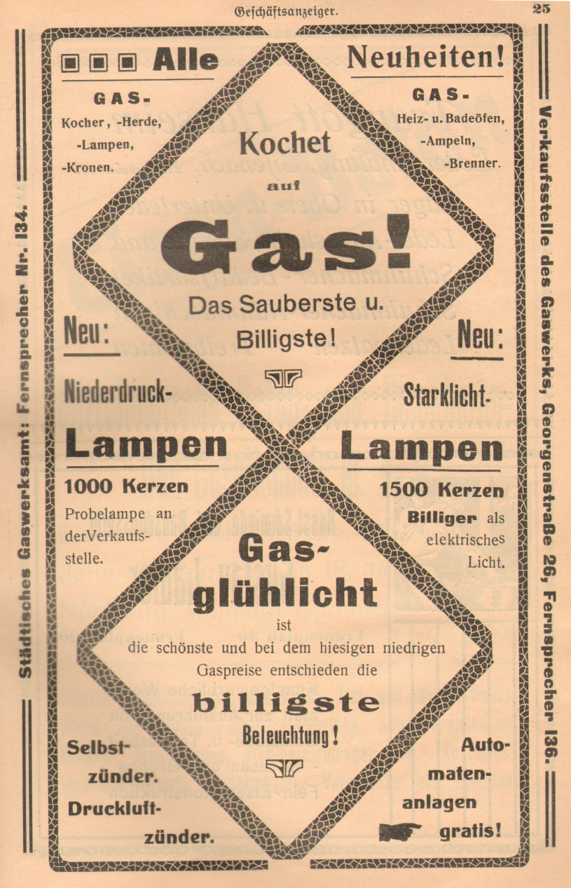 A advertisement for the gasworks in Eisenach.